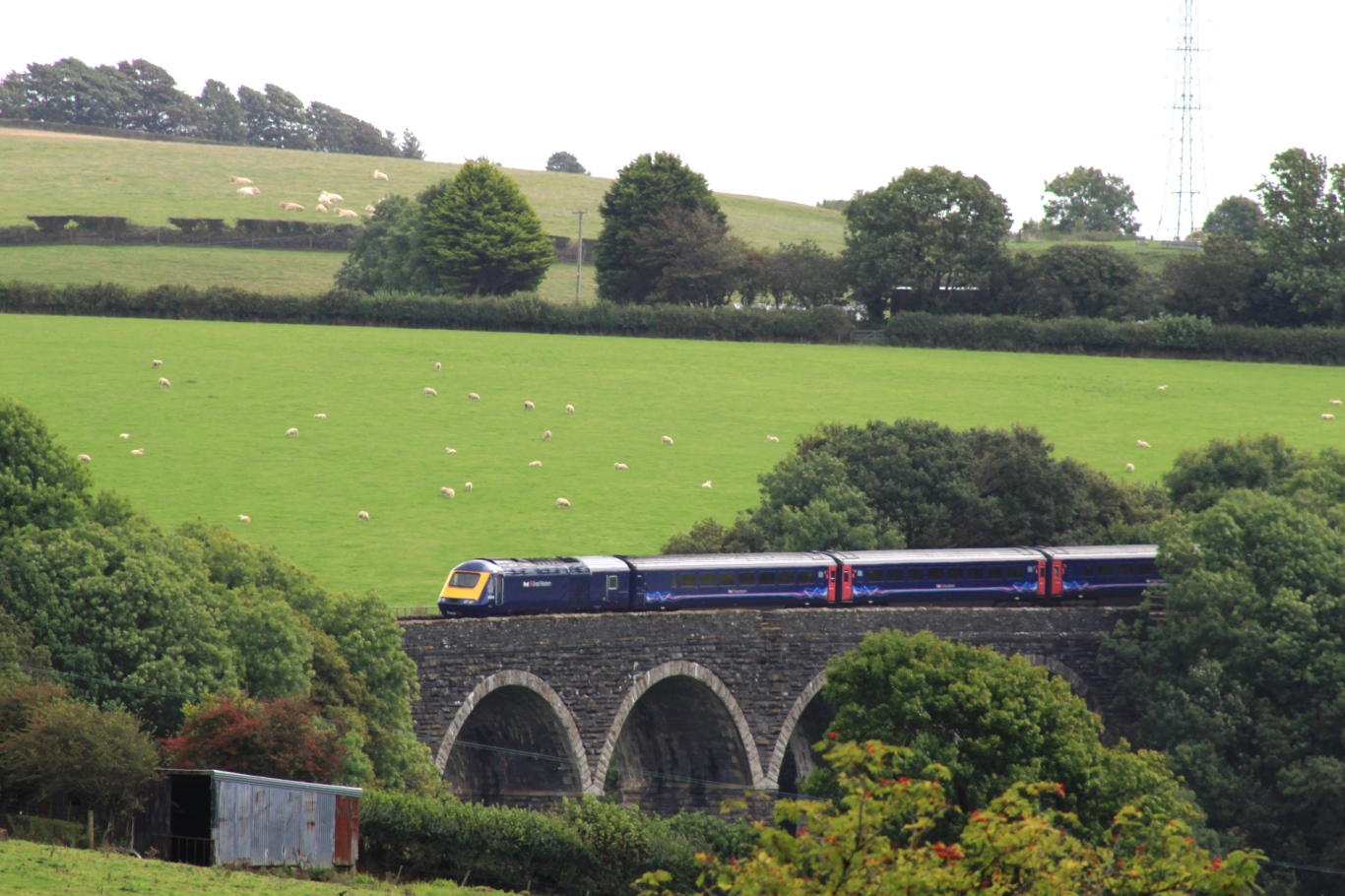 43164 provides the power at the rear of a First Great Western service from Penzance to London Paddington. It is crossing Bolitho Viaduct as it heads east from Liskeard.